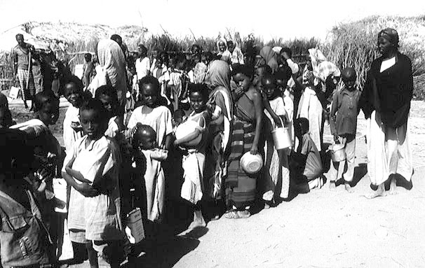 Somali villagers line up to receive food provided by UN